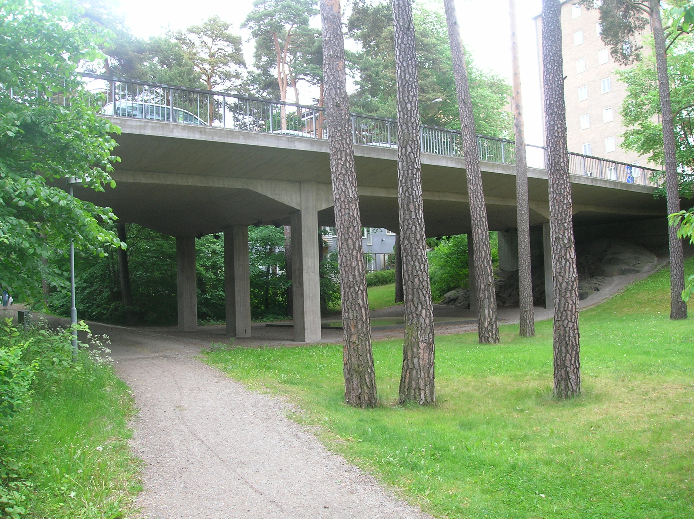 The Etsarvägen bridge at Grynkvarn Park, Johanneshov, Stockholm